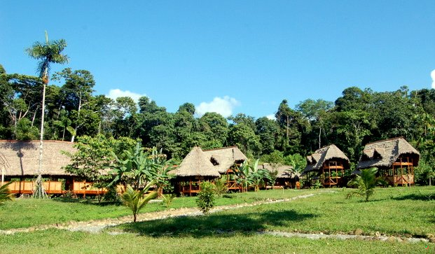 A view of the Manu Learning Centre